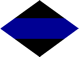 Formation patch of the 2nd Canadian Armoured Brigade. The copyright on this design would have been originally held by the Canadian Department of National Defence, but this crown copyright would have expired 50 years after the creation date (likely in 1943, or 1944 at the latest).